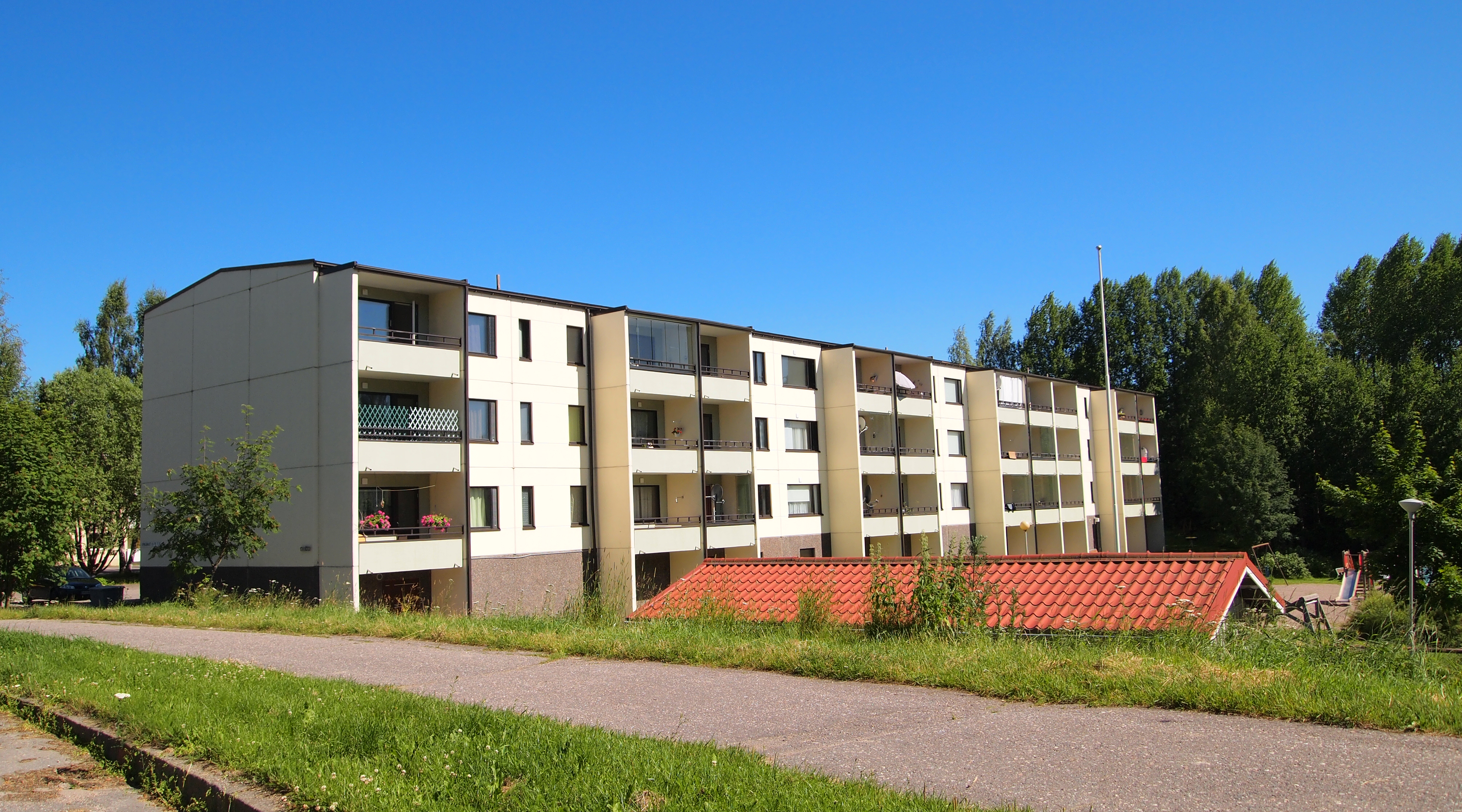 Building on the street Jyrkänkatu in Liipola district, Lahti. This photograph was taken with an Olympus E-PL1